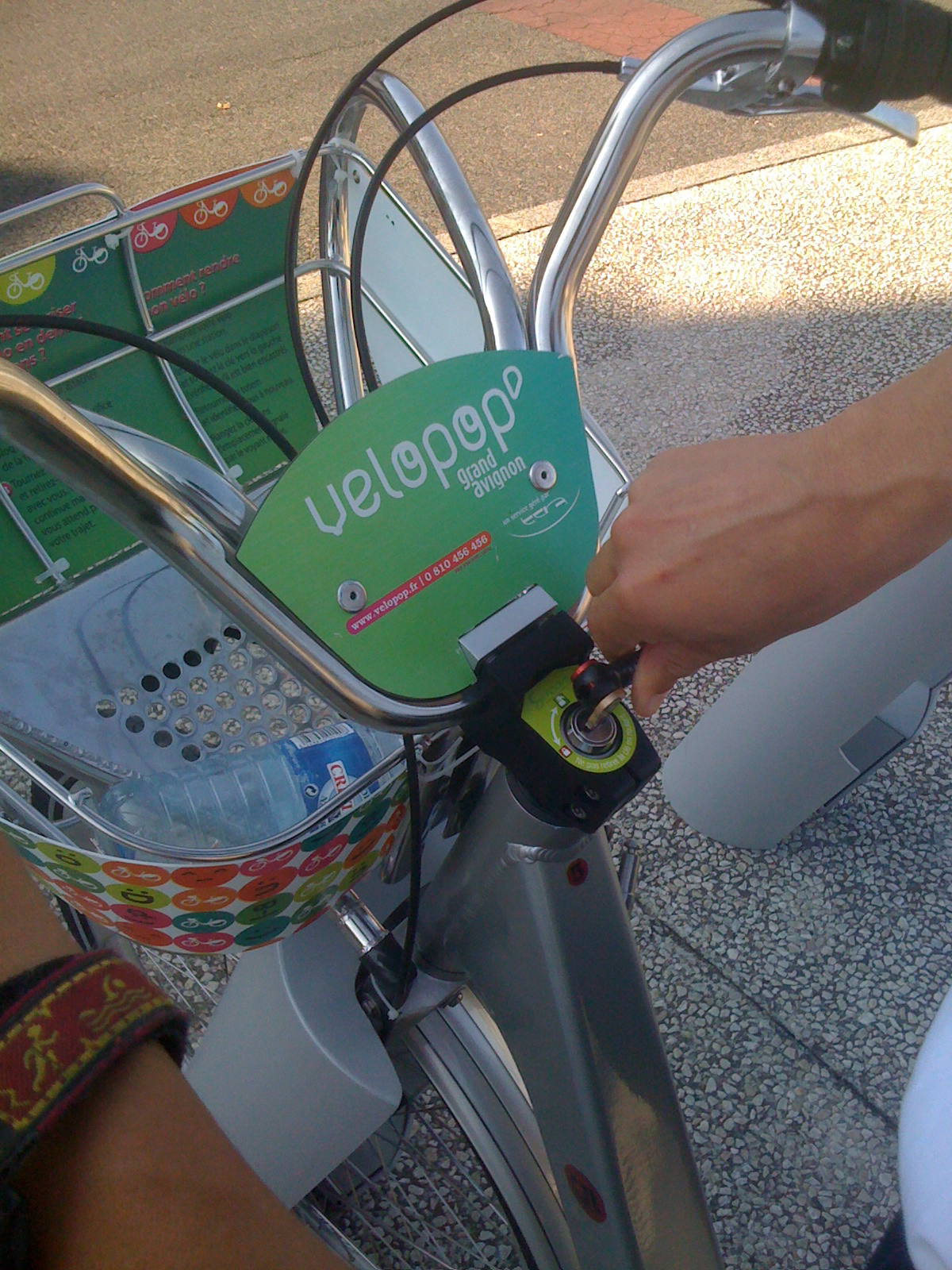 The key dispenser delivers a key that unlocks the bicycle. It can be used to secure the bike outside stations as well.